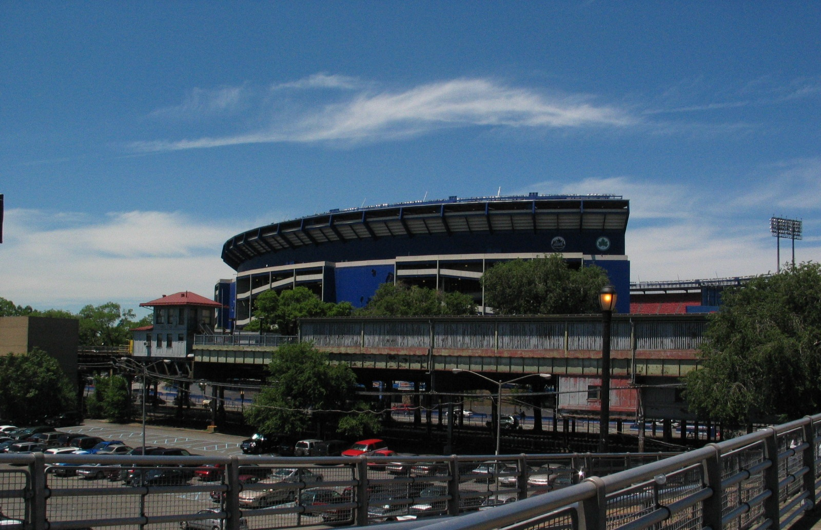 IRT Flushing Line spans near the famous Shea Stadium, NY.